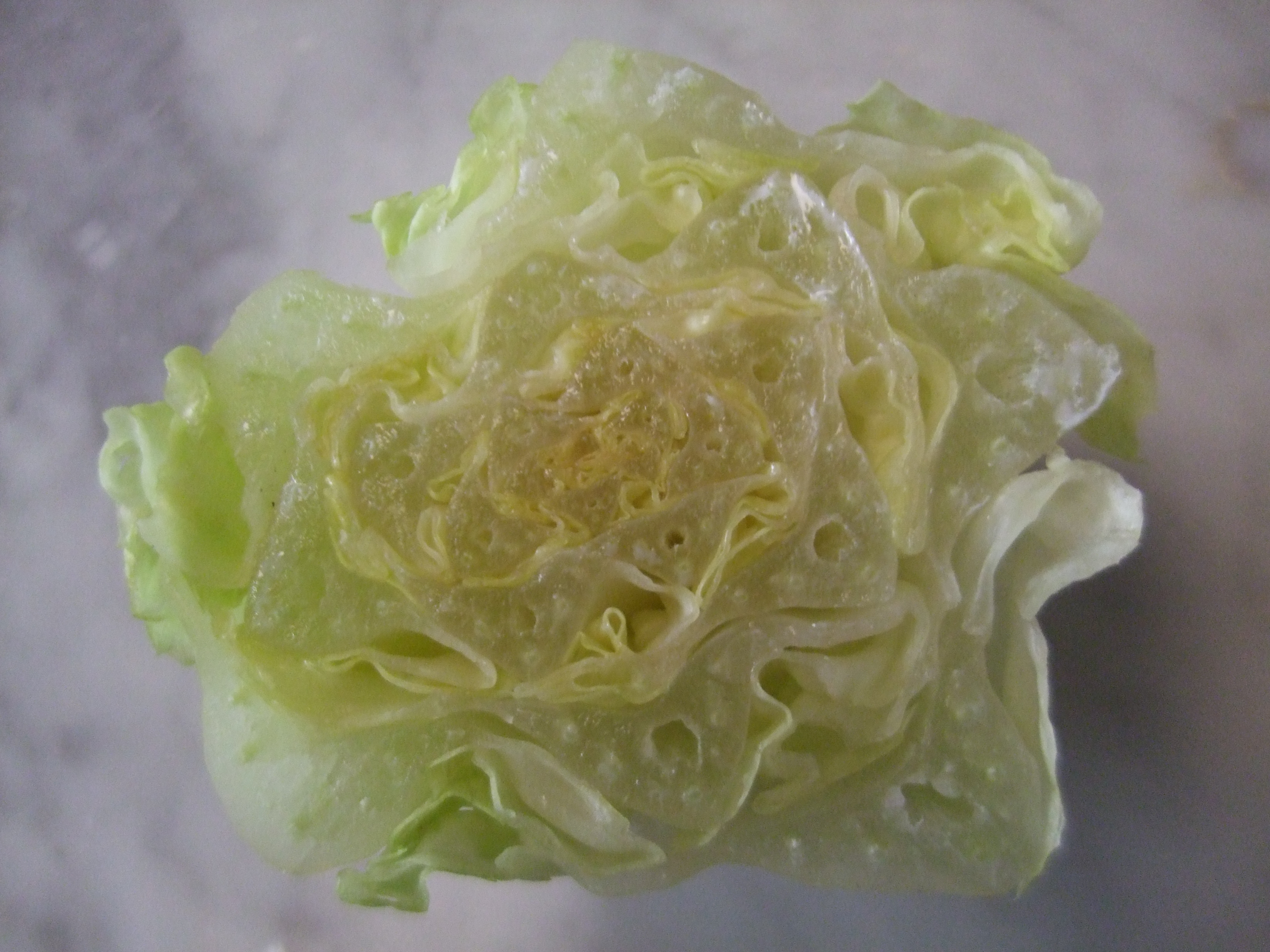 A photograph of a romaine lettuce heart cross seciton